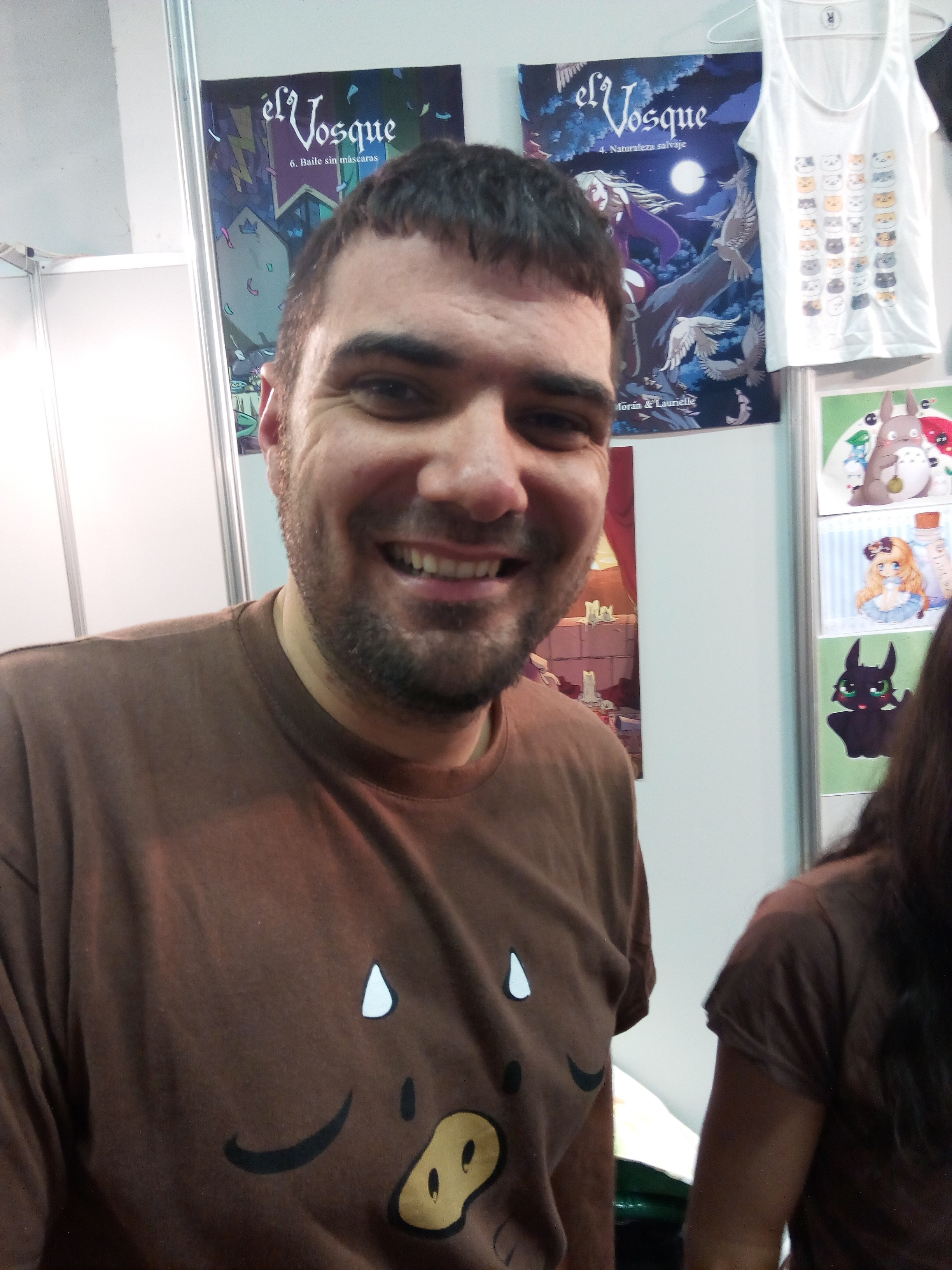 Sergio Sánchez Morán, webcomic writer in his stand at the 34th Saló Internacional del Còmic de Barcelona.